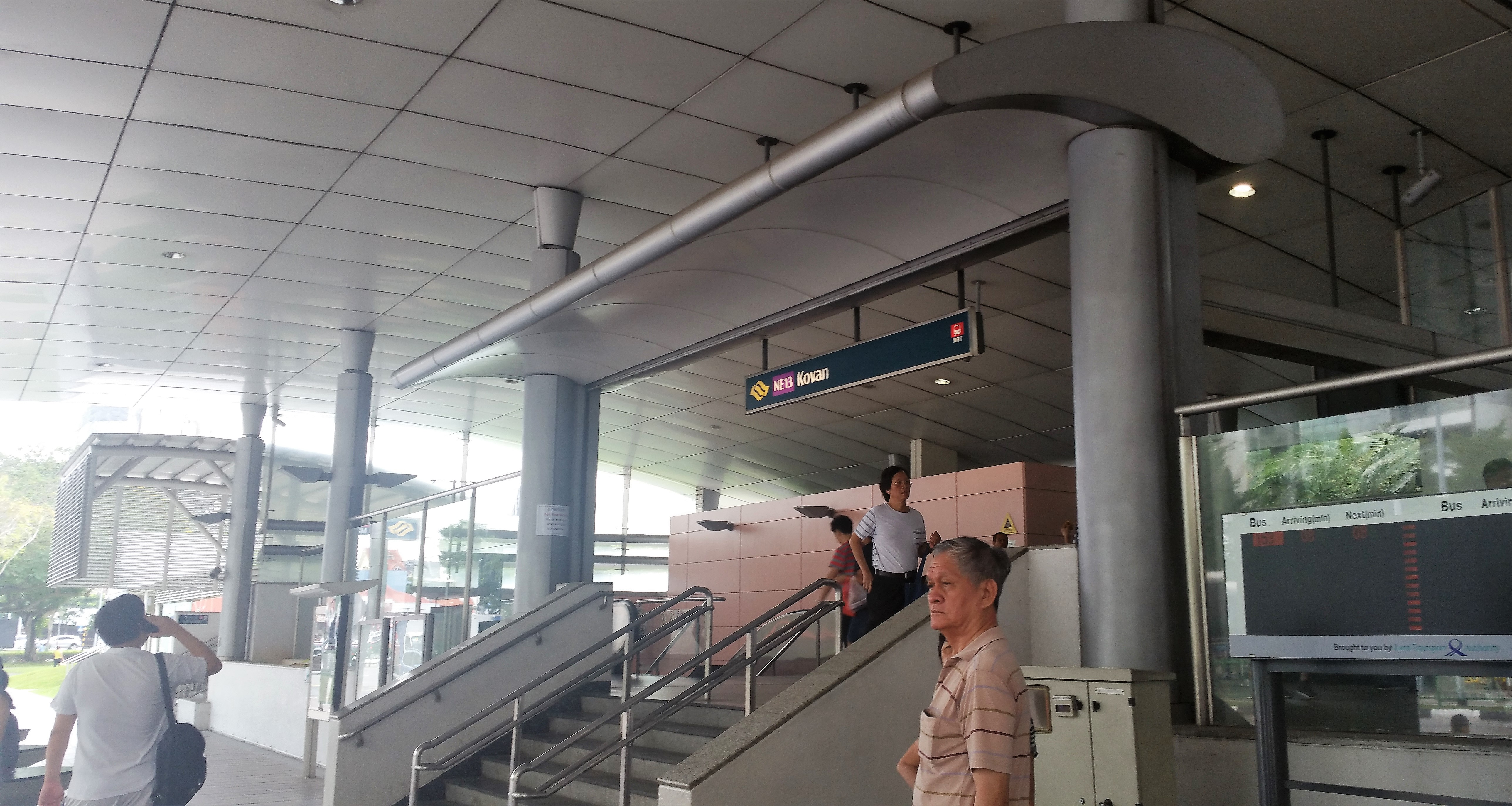 Kovan MRT Station Exit C